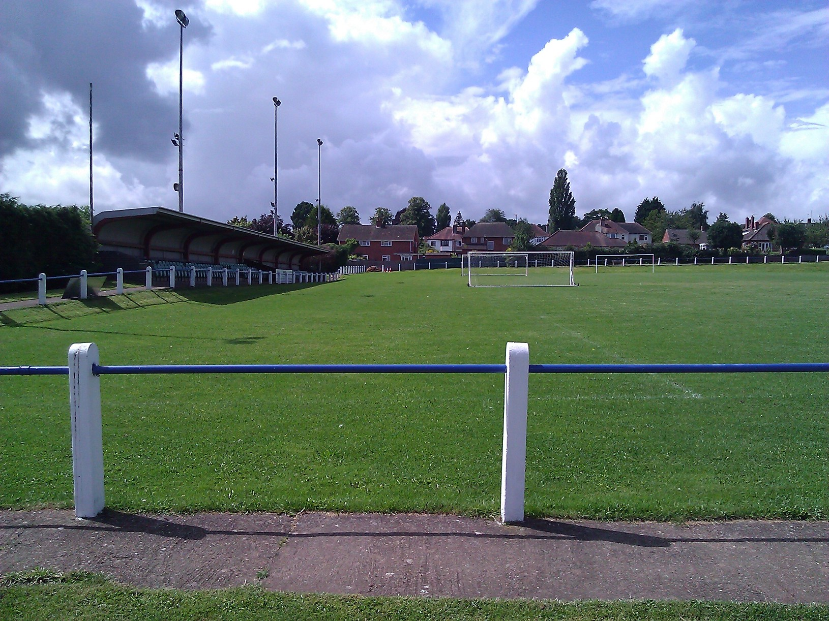 A view of the home ground pf Bridgnorth Town F.C., photo taken by myself on 4 August 2012